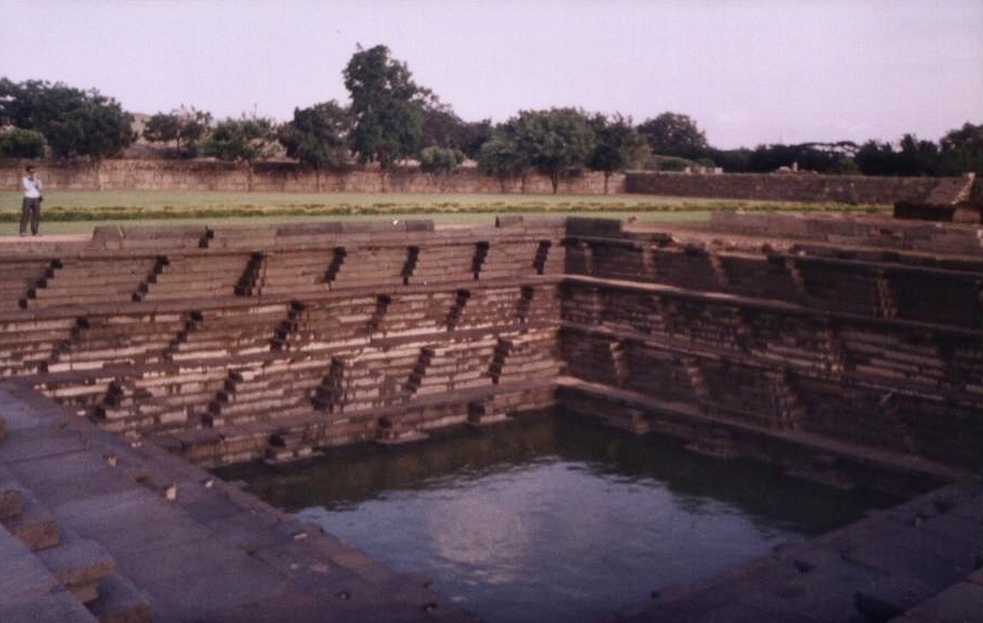 This is beautiful pond at hampi in karnaTaka of India belongs to vijayanagar empire: this is world heritage center of India